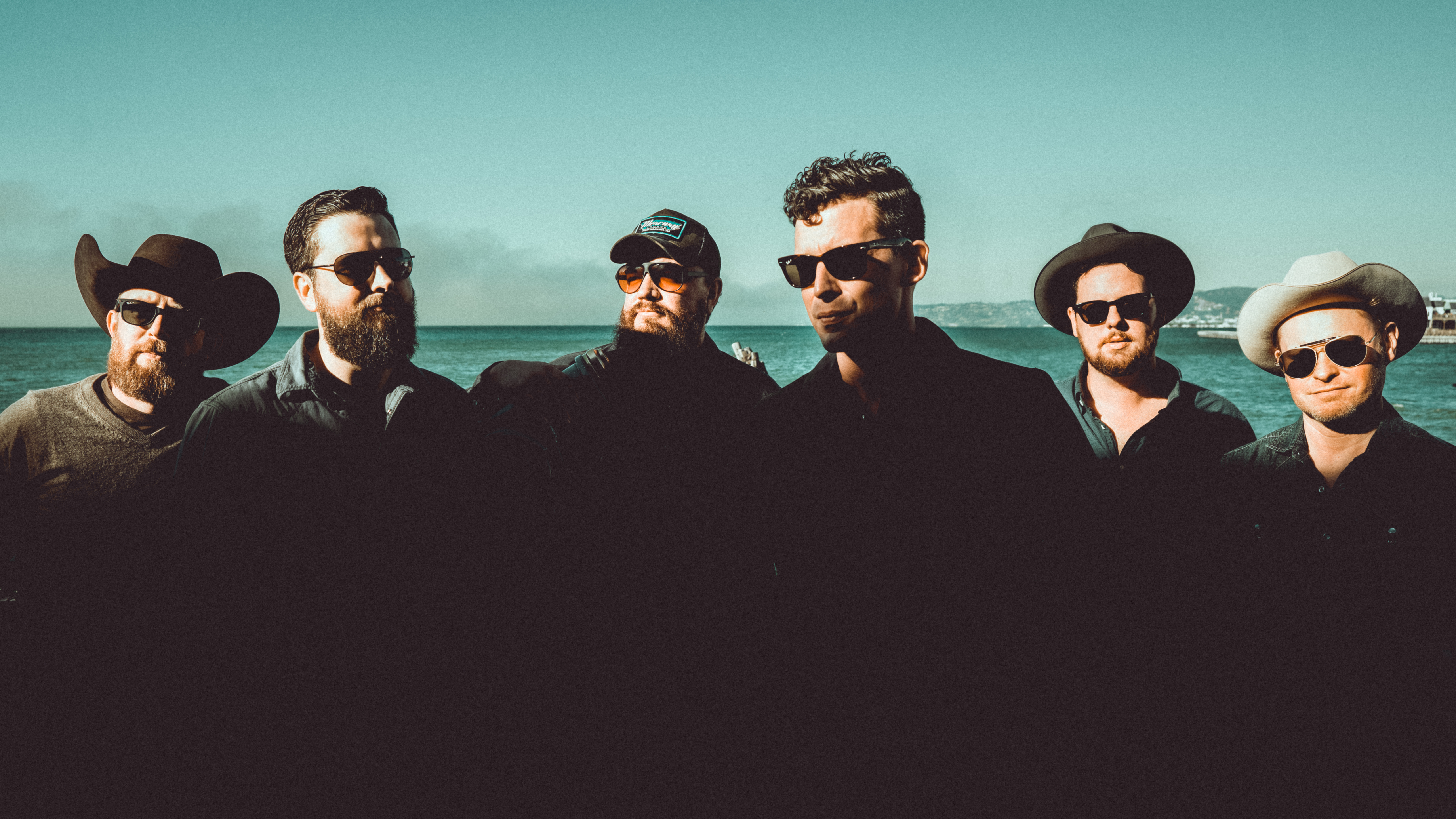 Turnpike Troubadours photographed by Cal Quinn in San Fransisco on 8/1/17 before the release of their 5th Studio Album.